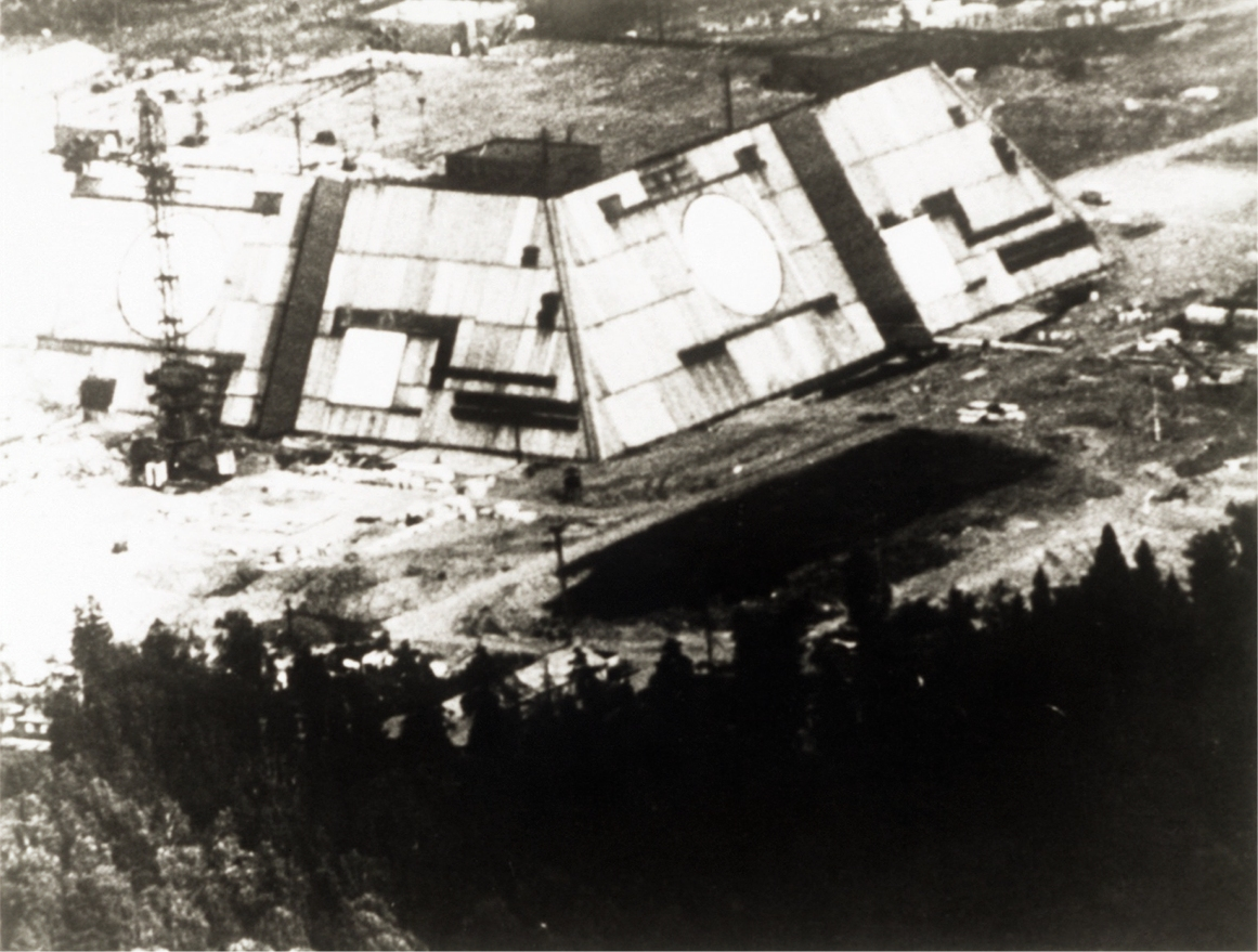 An aerial view of a Soviet Pill Box anti-ballistic missile system radar near Pushkino.